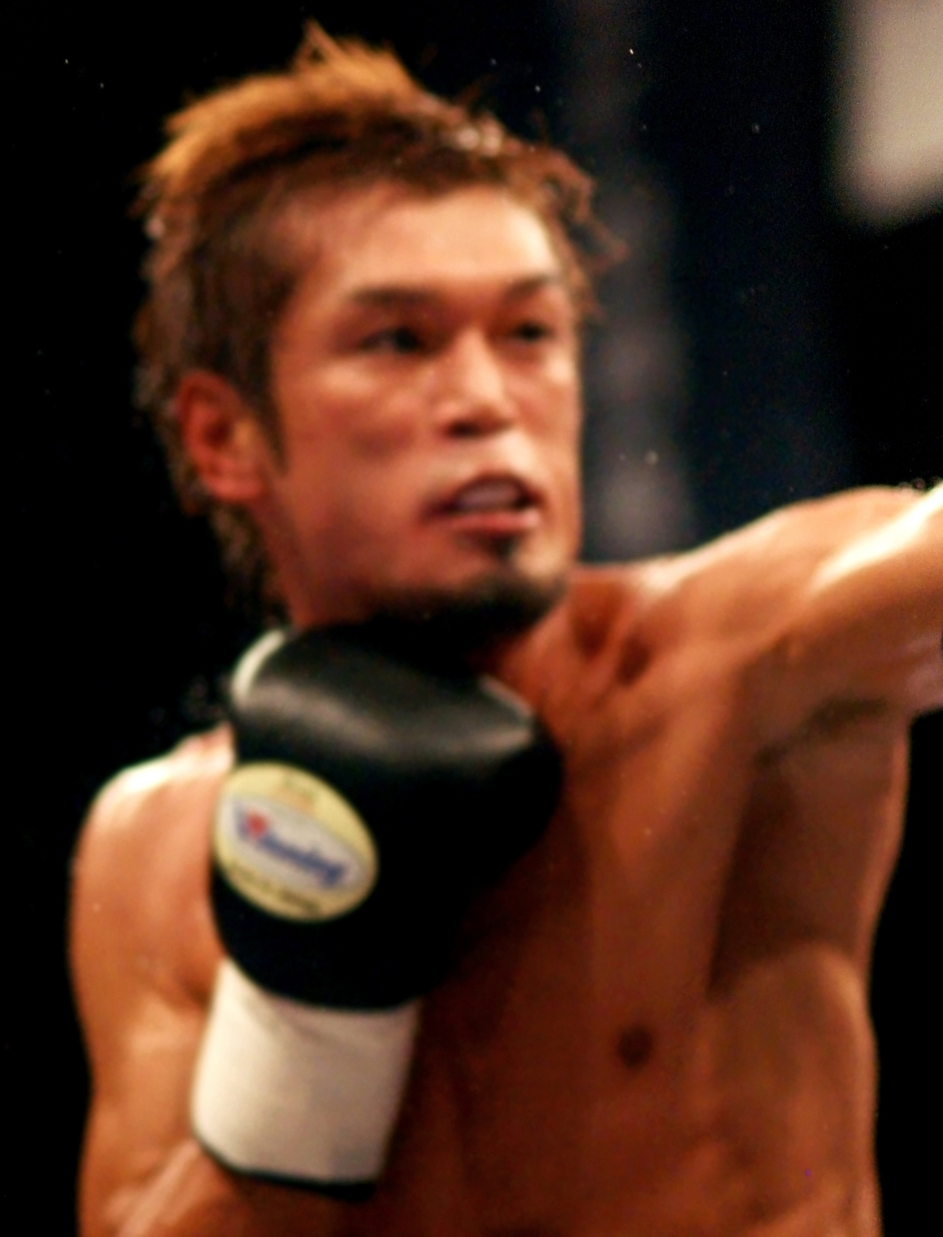 Nobuhiro Ishida fighting against Rigoberto Álvarez at the Mesón de los Deportes in Tepic, Nayarit, Mexico in October 9, 2010.